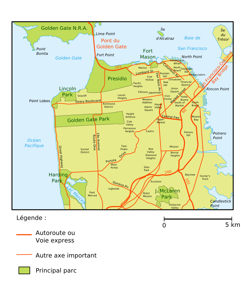 Map of the neighborhoods of San Francisco, California, USA